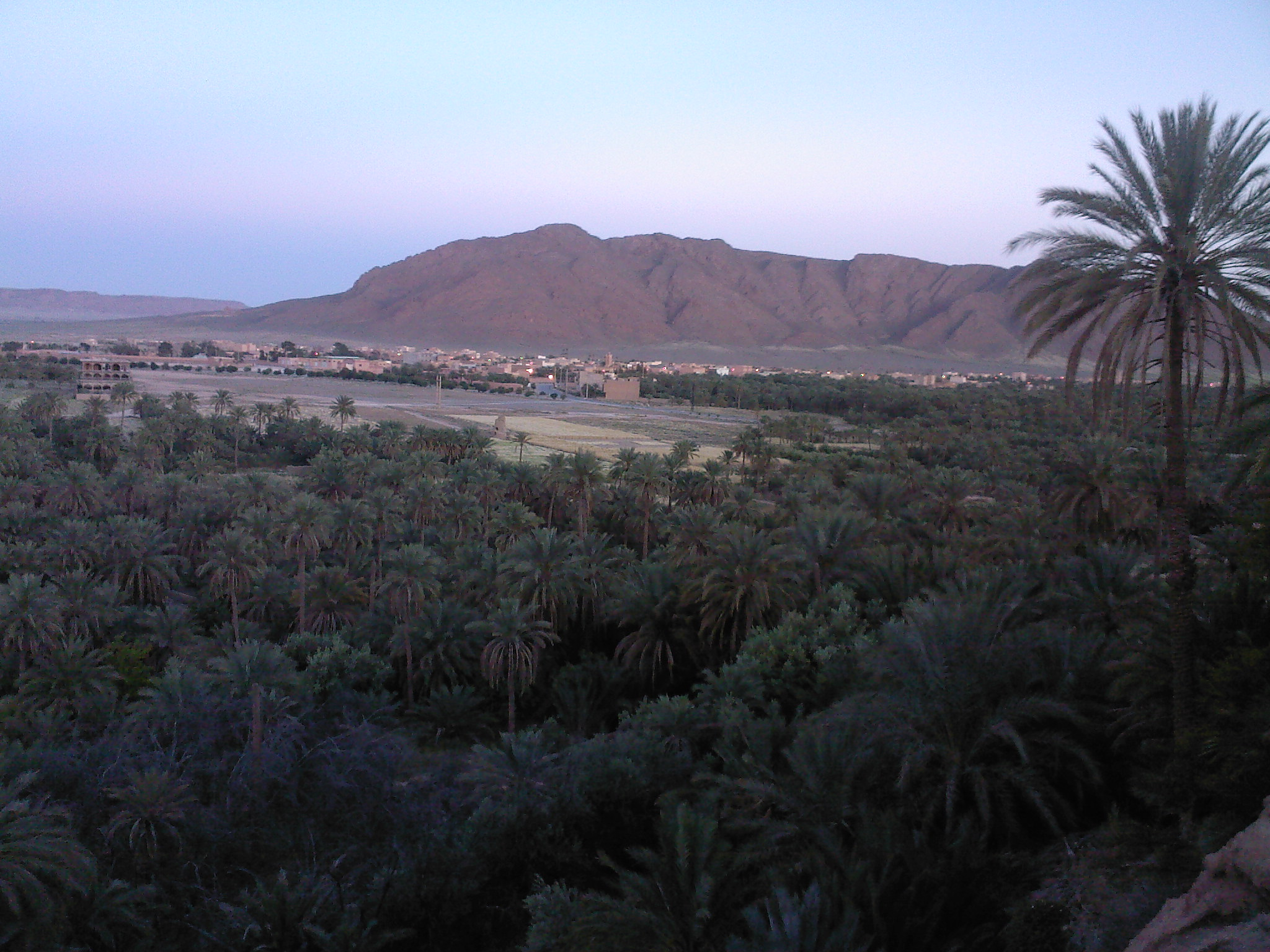 the oasis of Figuig ; Morocco